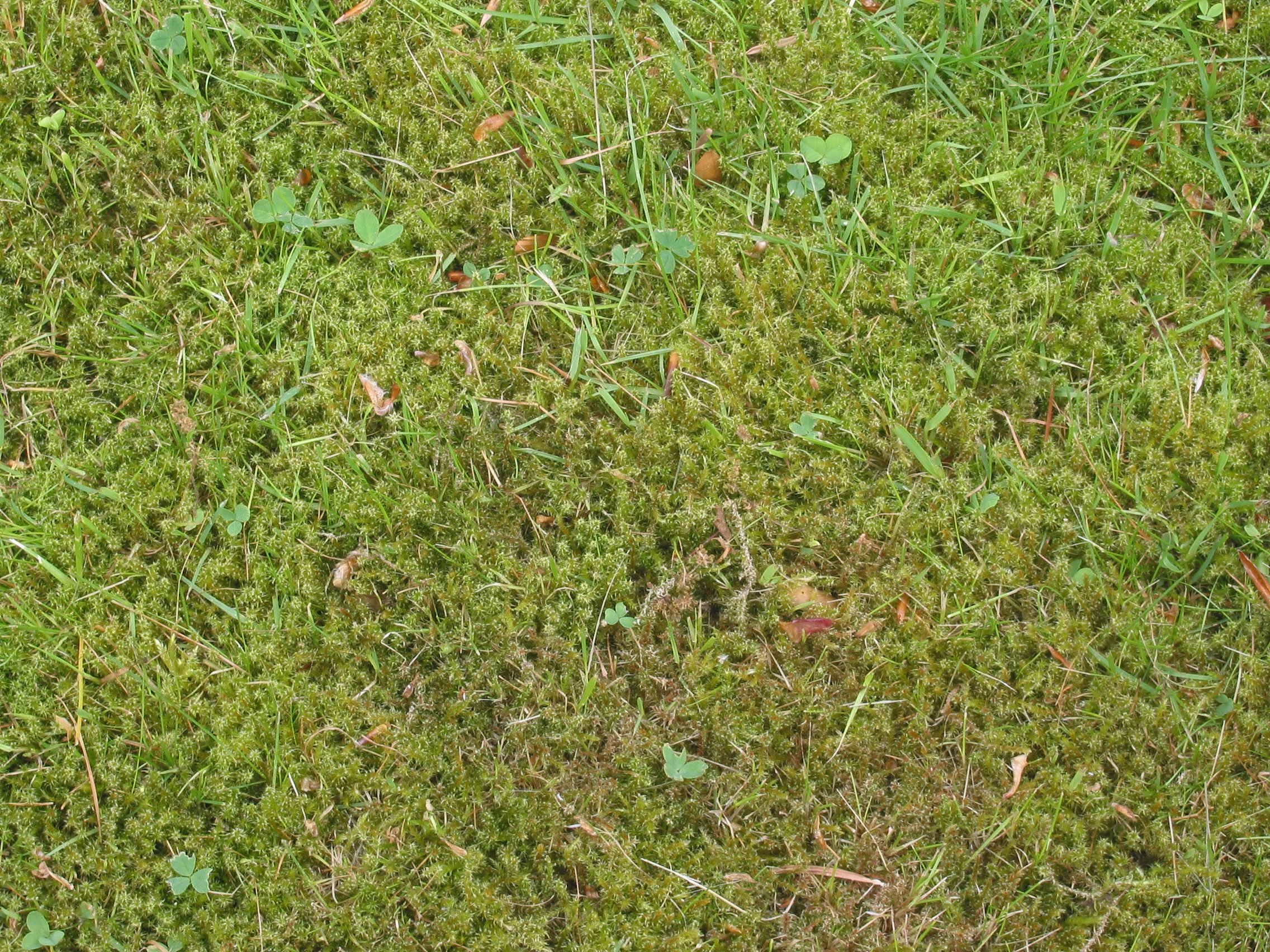 Moss in lawn